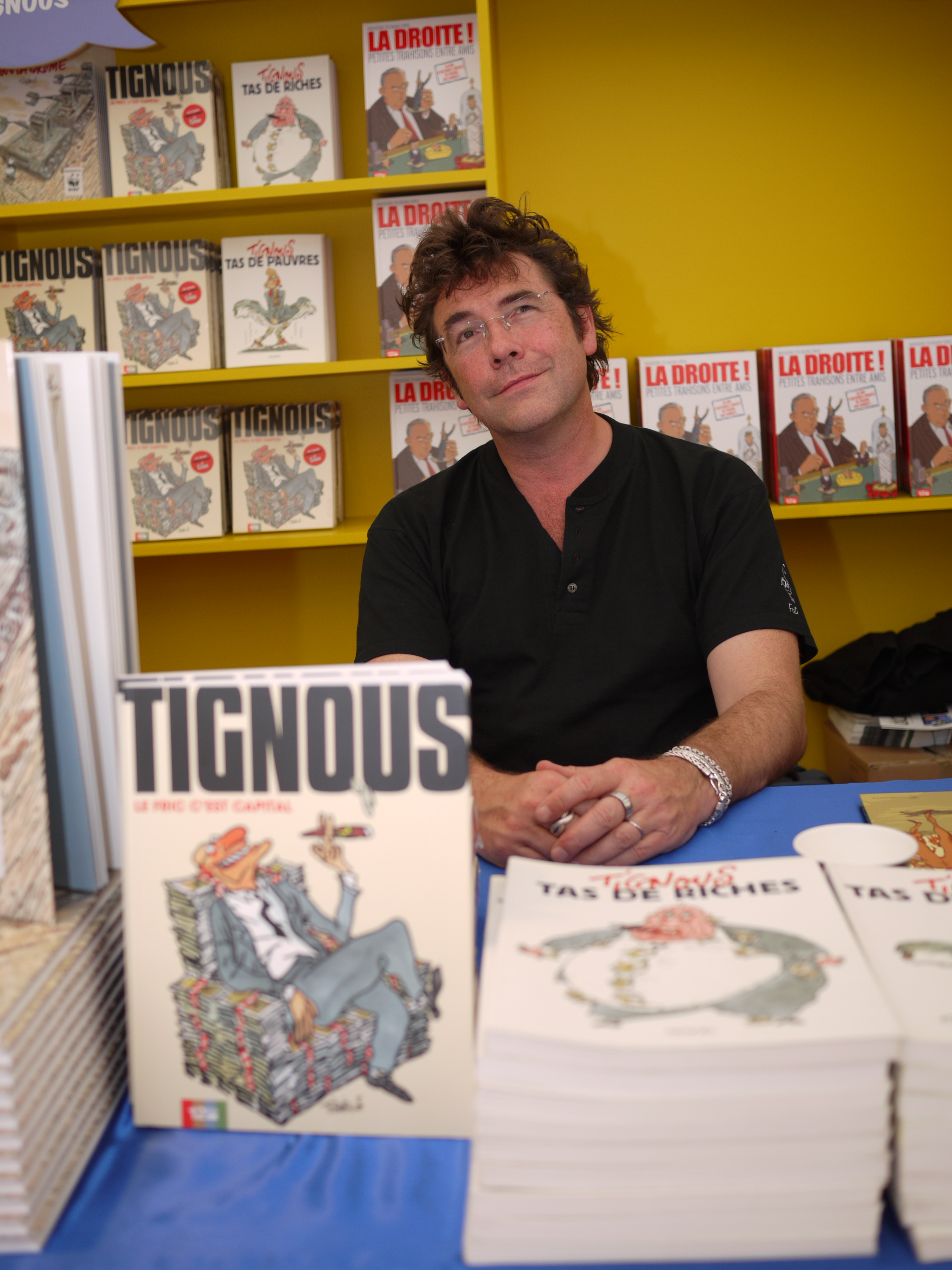 Comic Strip Festival of Montpellier - O Tour de la Bulle 2010